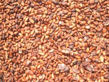 Caccao under the sun in Venezuela.